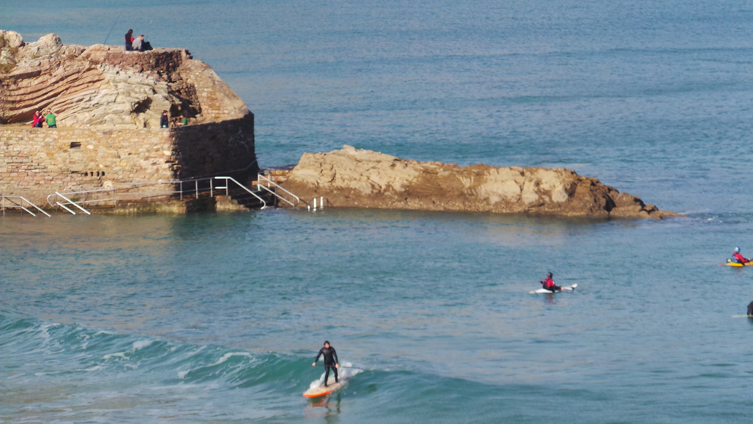 Loretopea in Donostia.